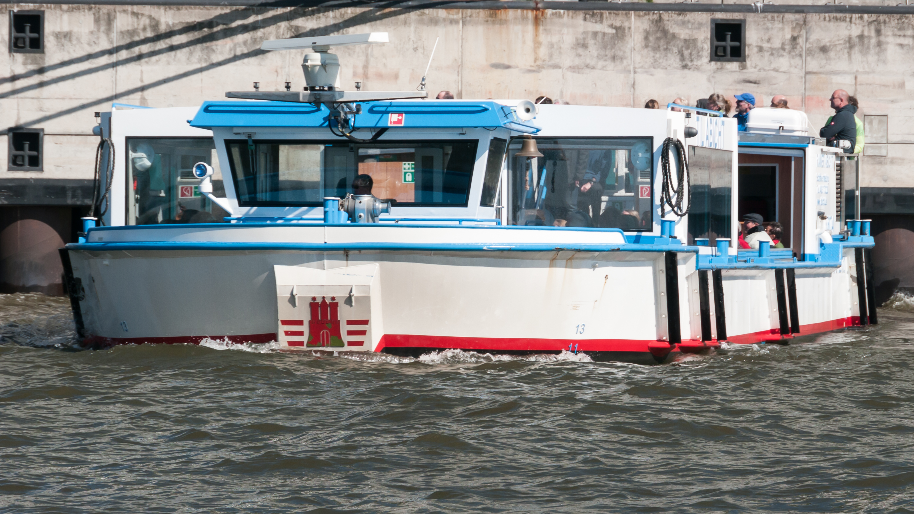 Wikipedia Ahoi in Hamburg 2019